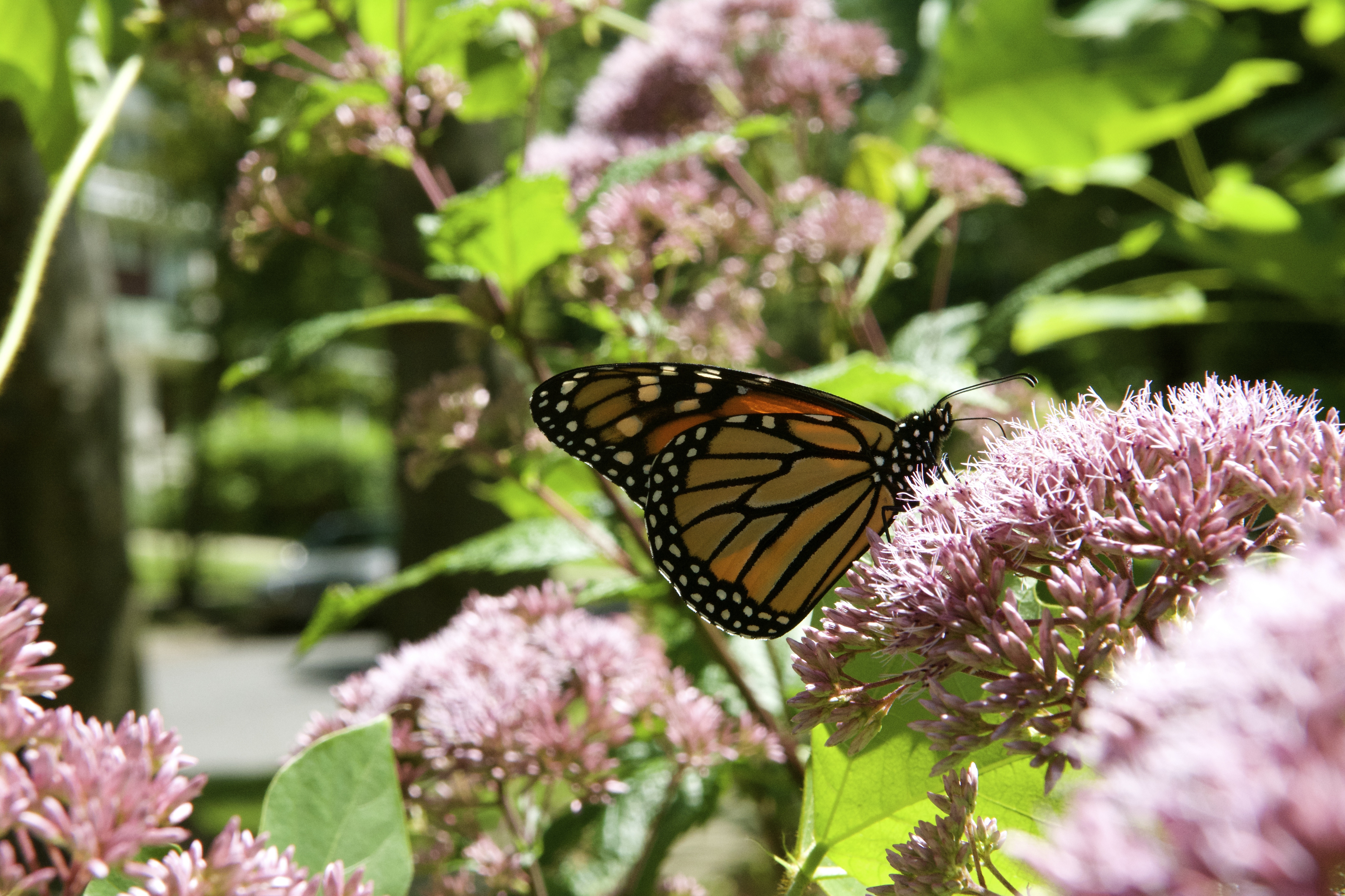 A monarch butterfly feeds on Joe Pye Weed, Eutrochium maculatum.